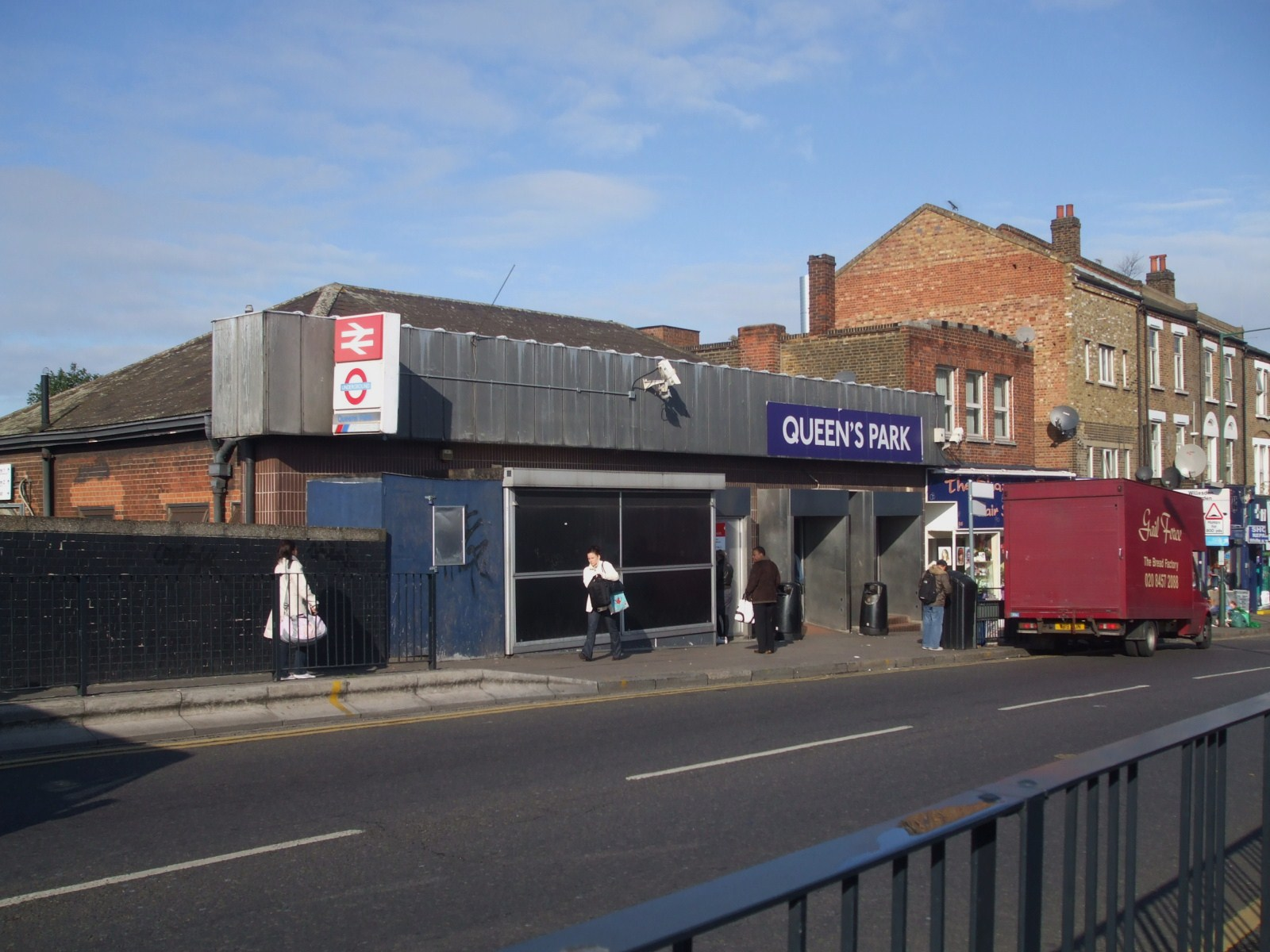 Queen's Park station entrance